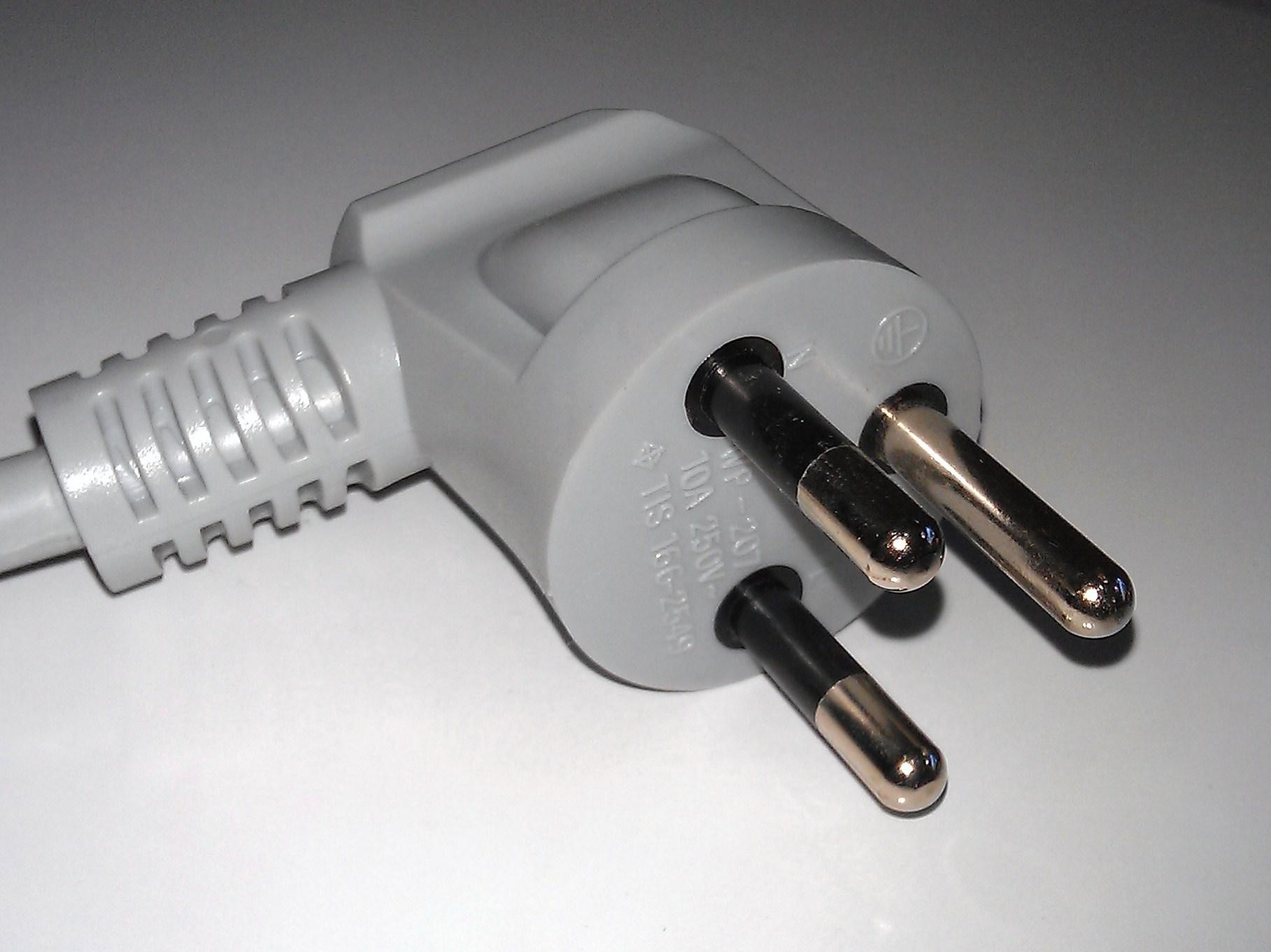 Thai TIS 166-2549 standard three-pin mains plug